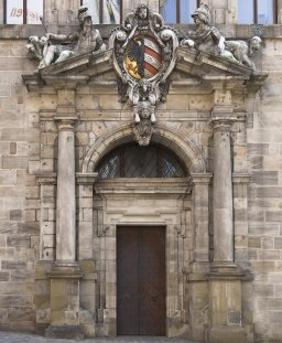 Monument to the Four Kingdoms of Daniel: two each.